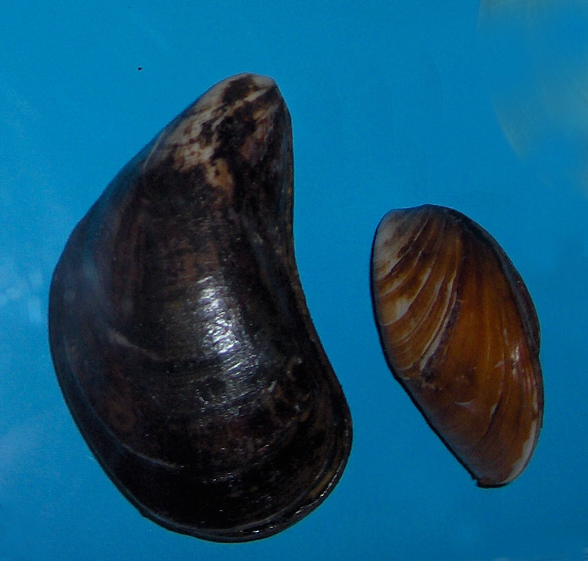 Mytilus galloprovincialis, the Mediterranean mussel (family Mytilidae)